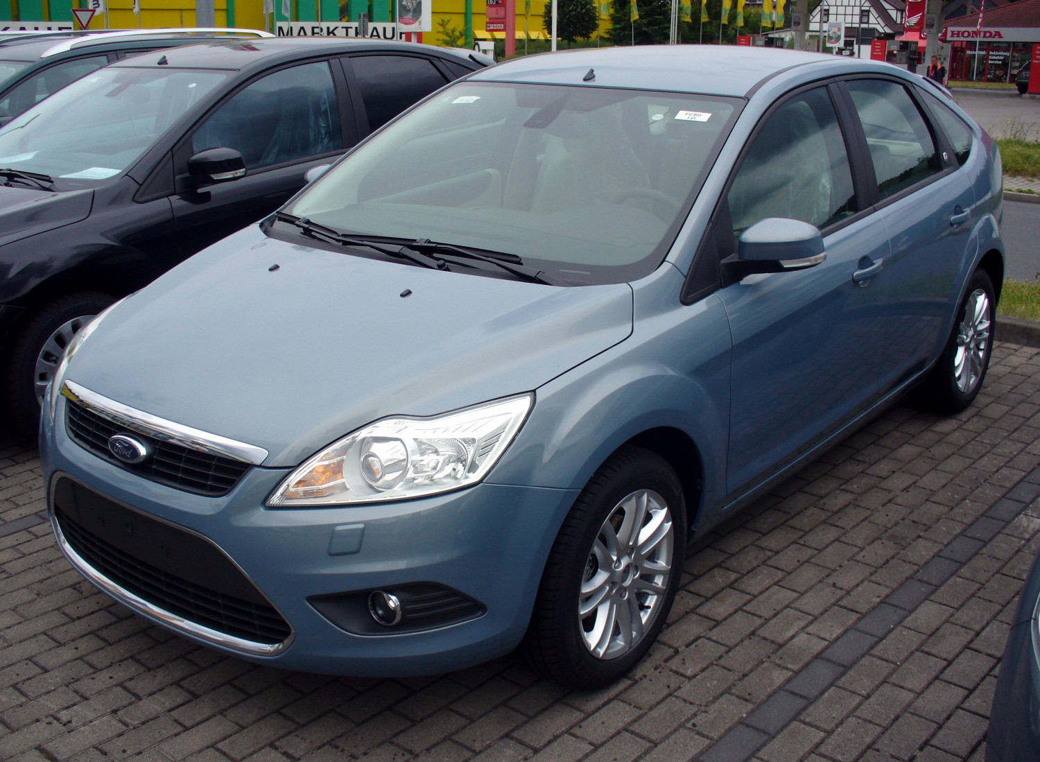 Ford Focus II